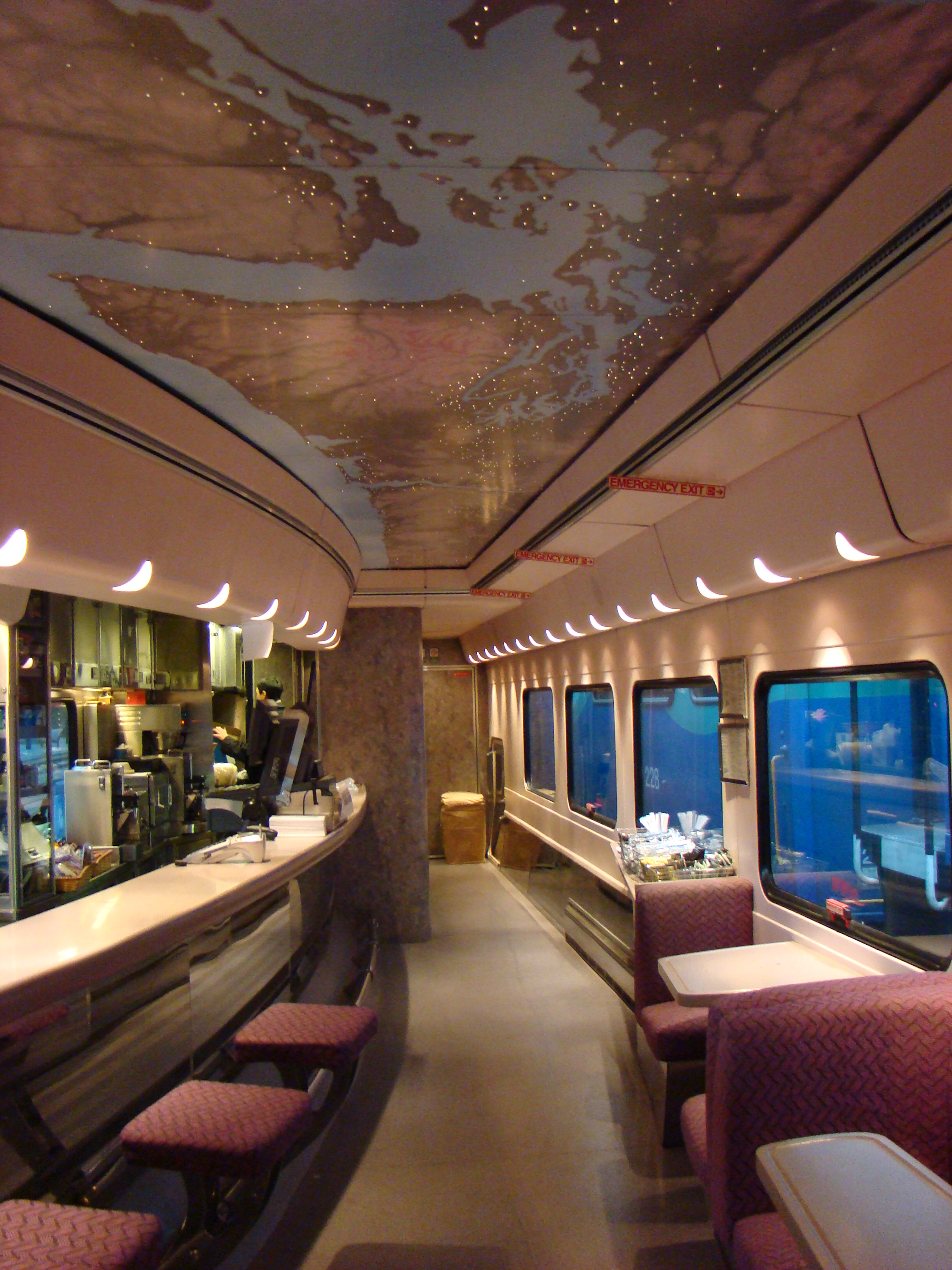 Bistro car from Amtrak Cascades at night, note the Map of the Pacific Northwest on the ceiling